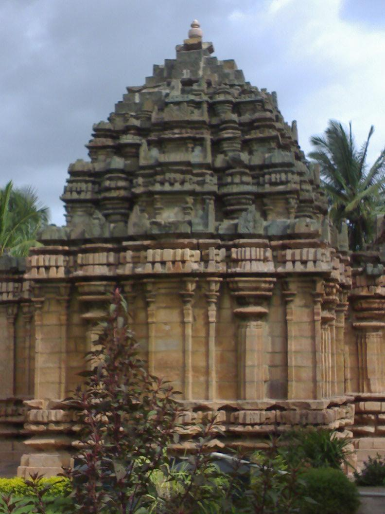 Hooli Panchalingeshwara temple Source and Author : Manjunath Doddamani, Gajendragad / Hubli, Karnataka(North), India